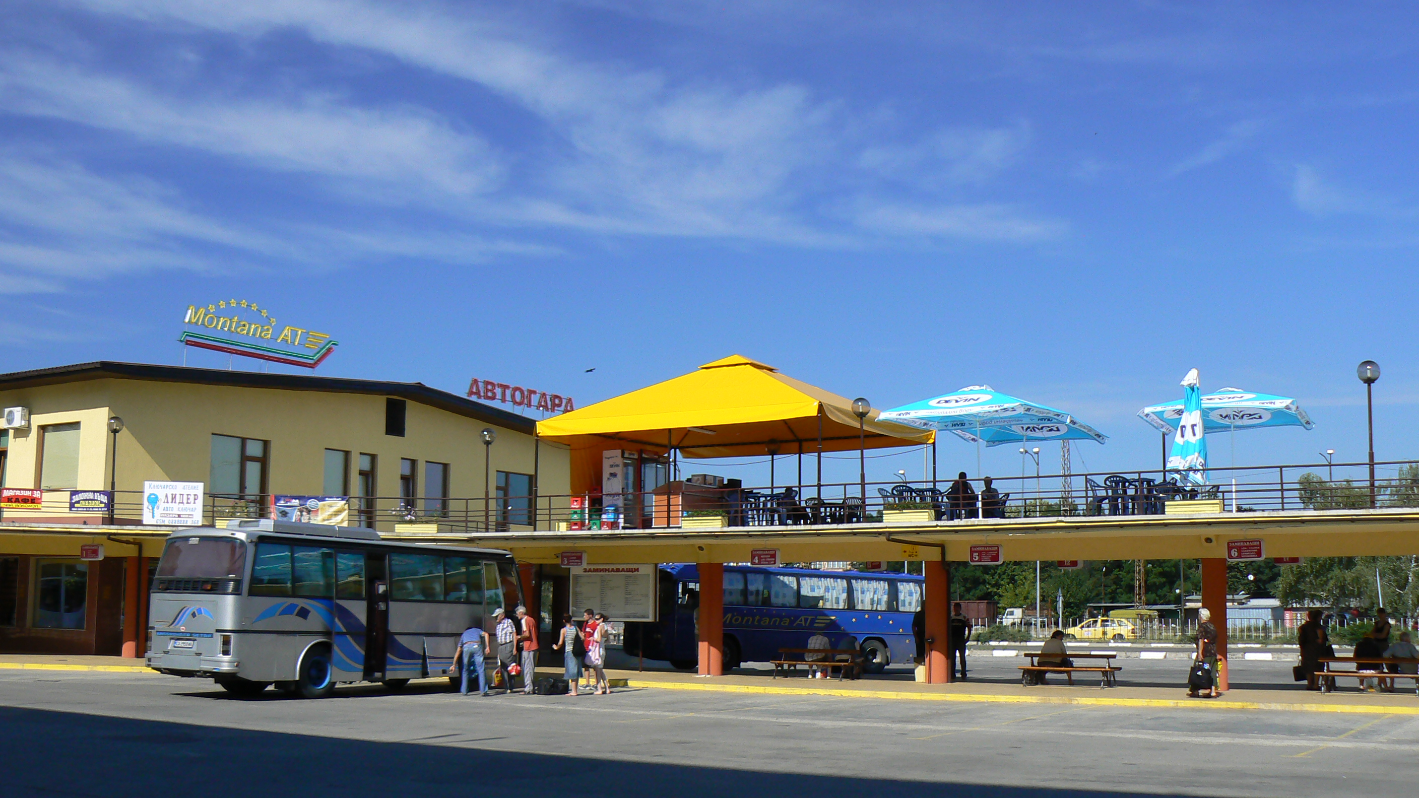 The central bus station in Montana, Bulgaria.